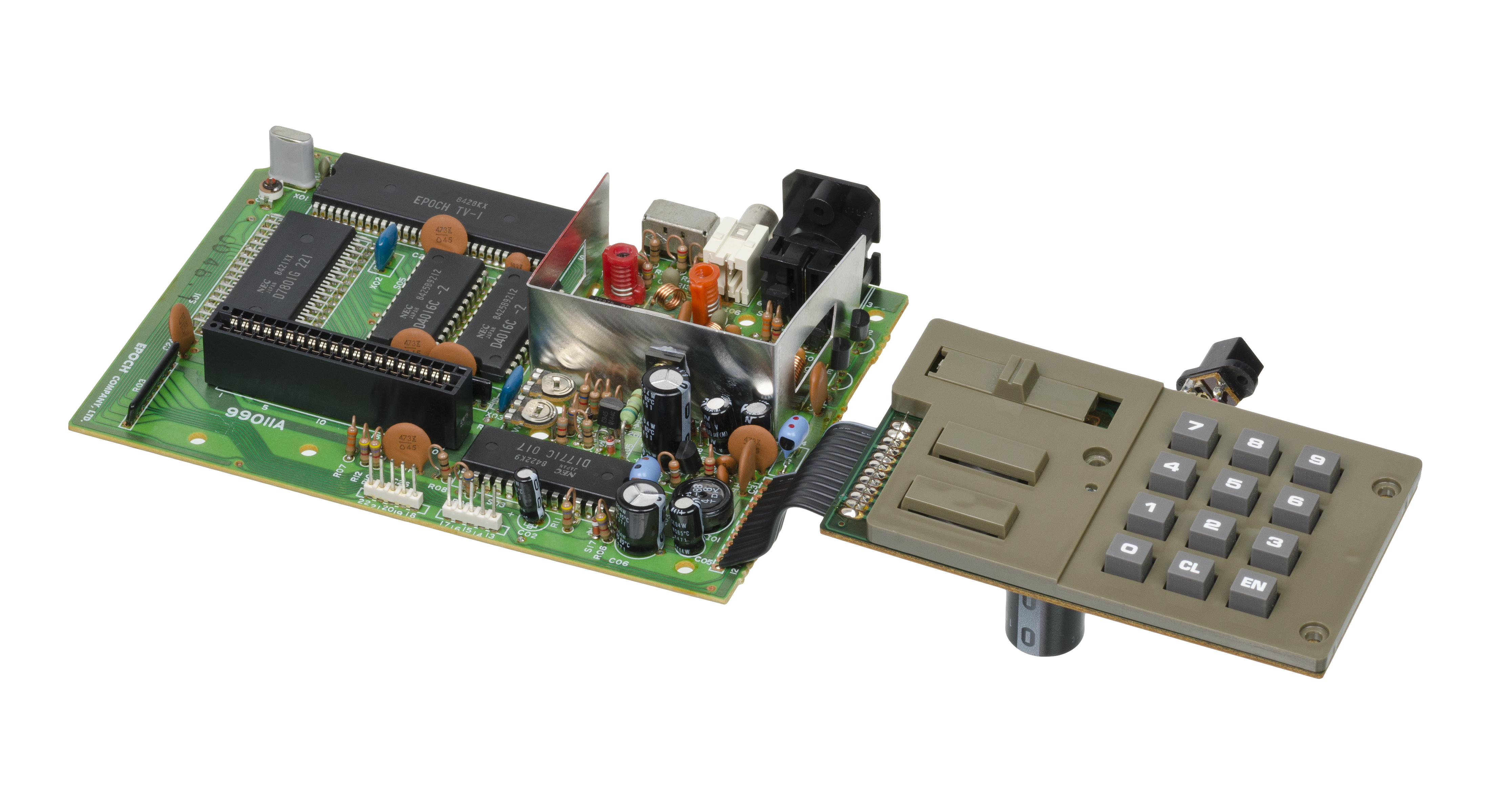 The motherboard of the Epoch Super Cassette Vision, a gaming console released in 1984. Only released in Japan, the Super Cassette Vision was a follow-up to the Cassette Vision.